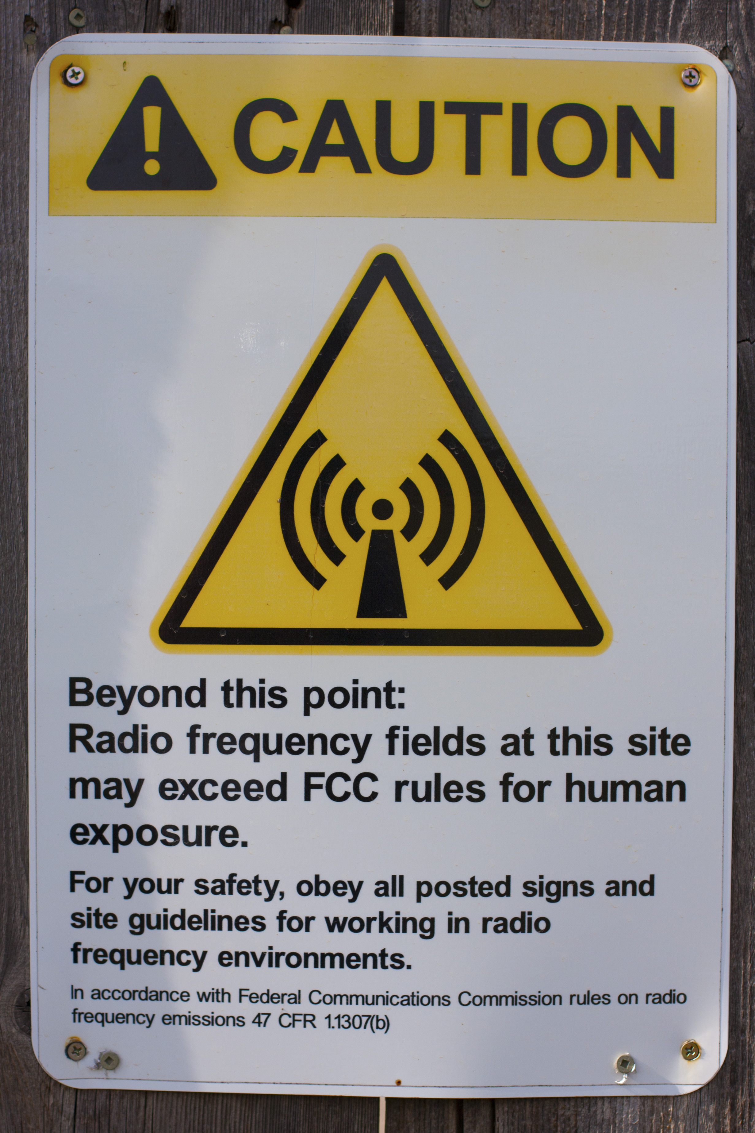 For Your Own Health